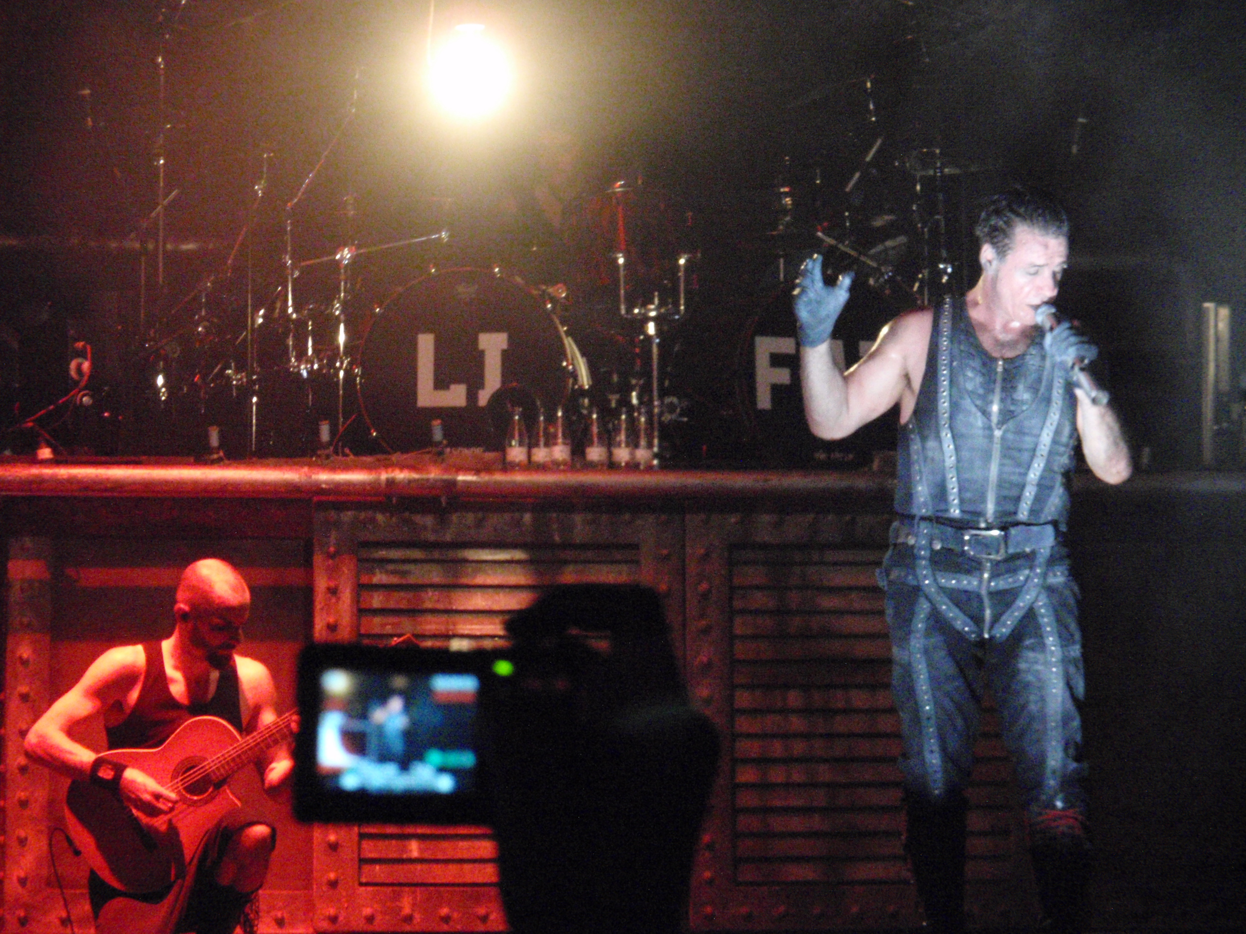 Rammstein playing Fruhling in Paris at BBK Live 2010 (Bilbao, Spain)